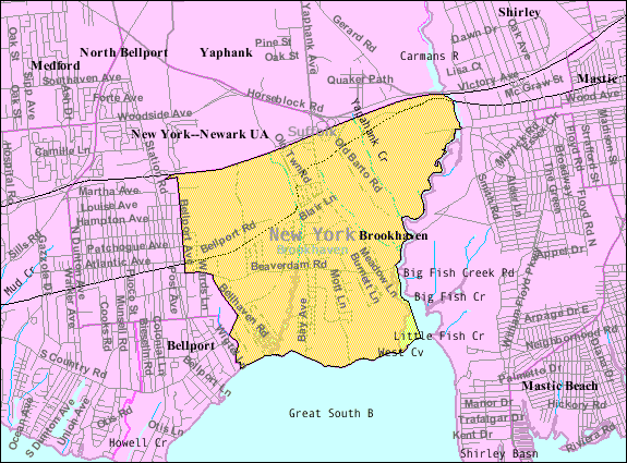 U.S. Census 2000 reference map for Brookhaven